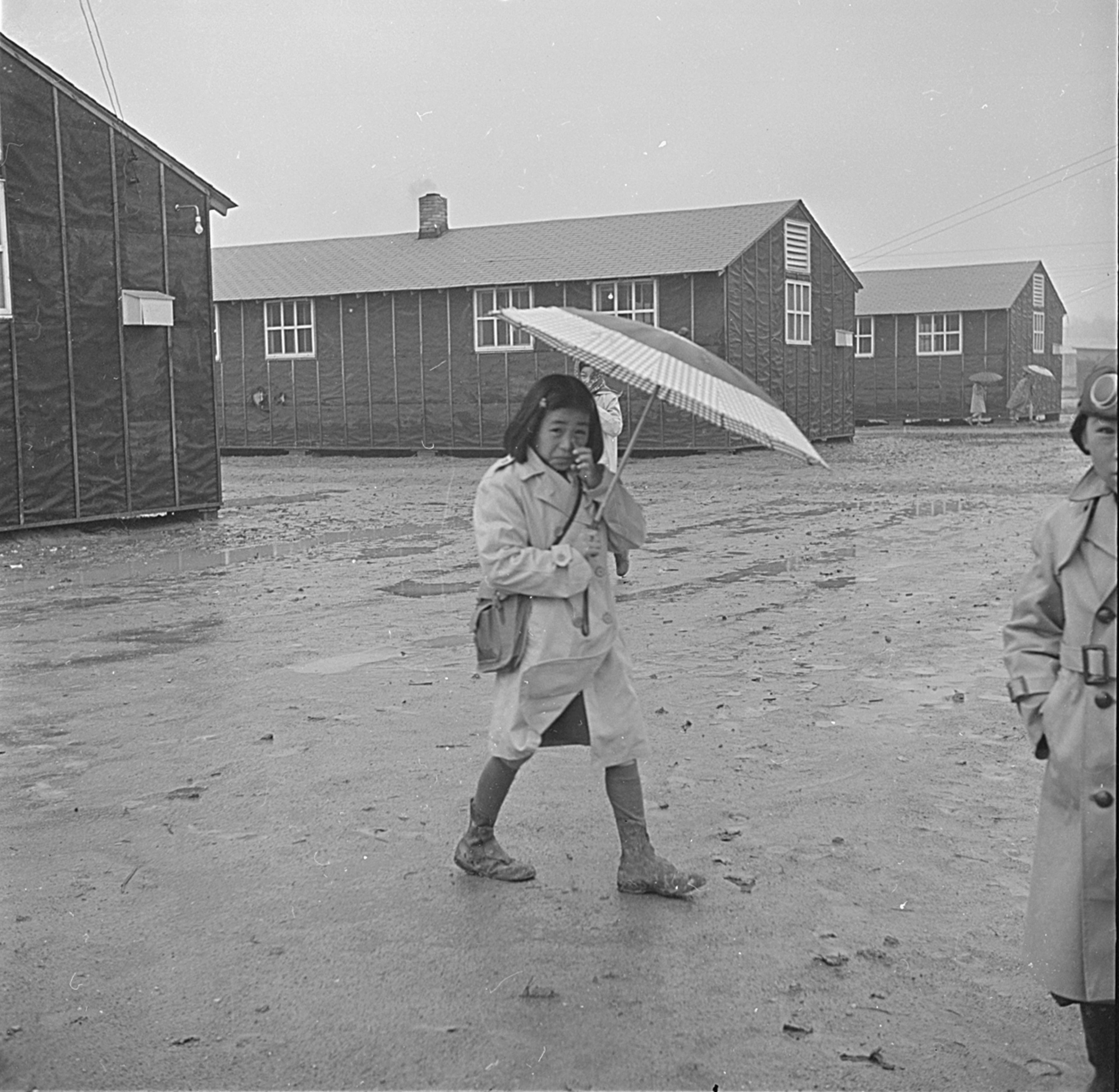 Jerome Relocation Center, Denson, Arkansas. The Arkansas rainy season, and this young resident of the Jerome Center dons rubber boots and carries a parasol. The (buckshot) mud makes the trip to and from school a little dificult. (Japanese American interment camp during World War II.)